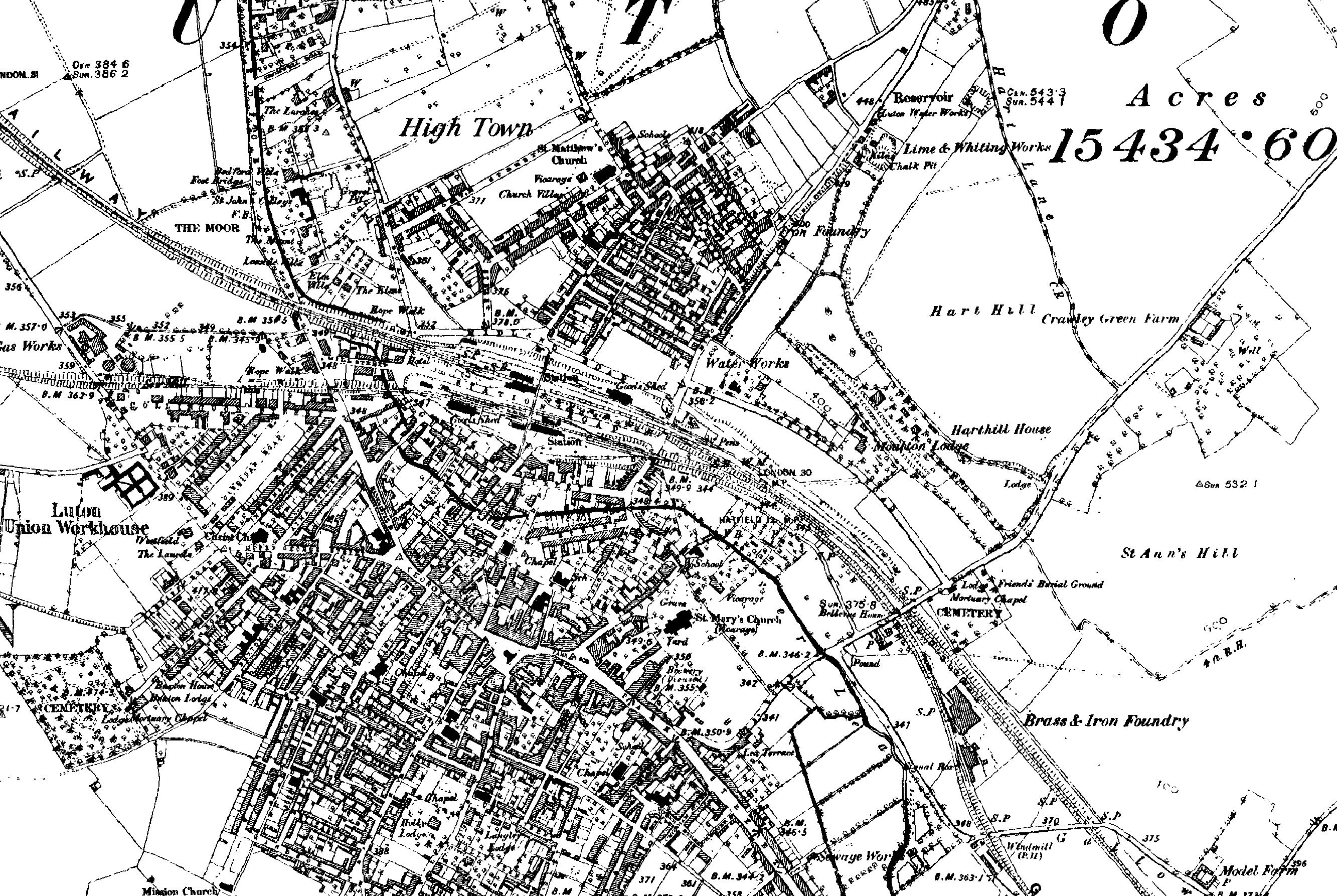 Luton map from 1888. Copyright now expired. Category:Luton